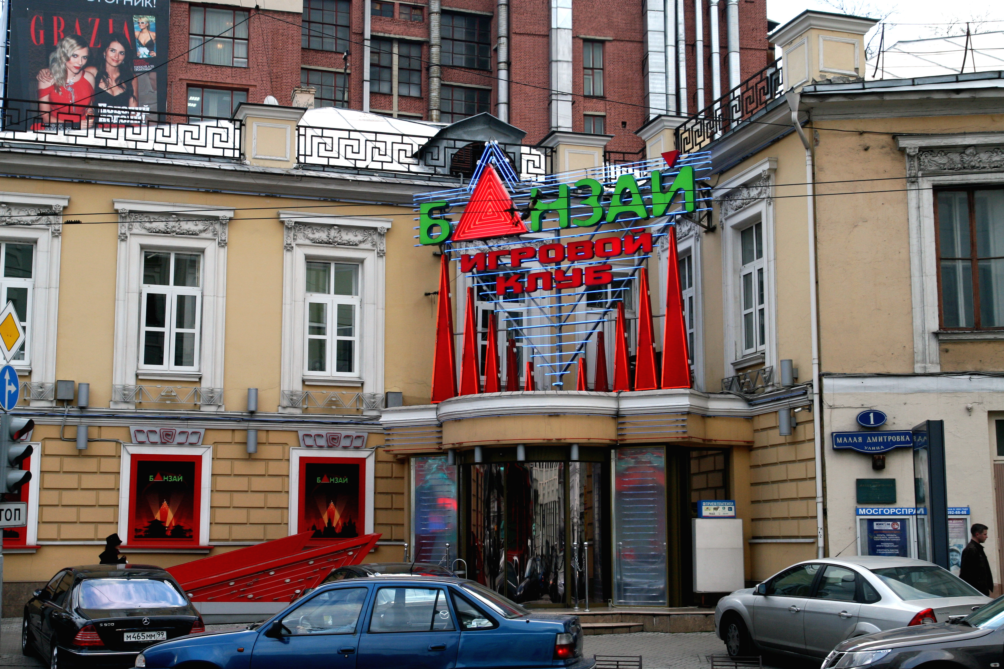 Moscow, Malaya Dmitrovka Street 1